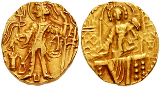 Vasudeva III Circa 360-365 AD